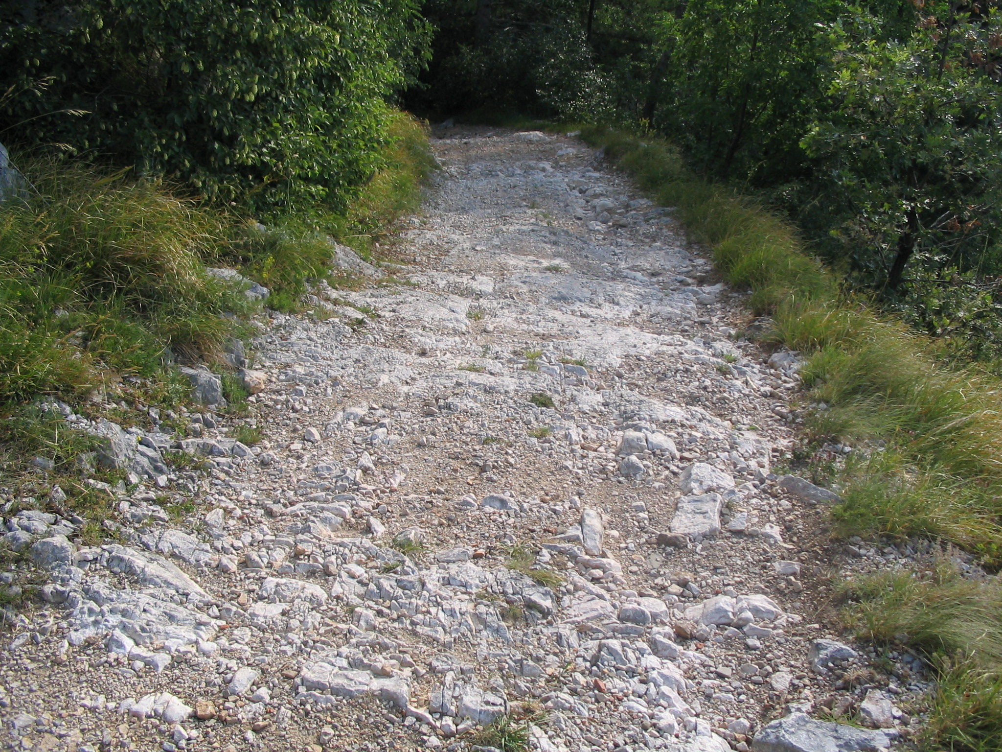 Karst cart road in Italy.